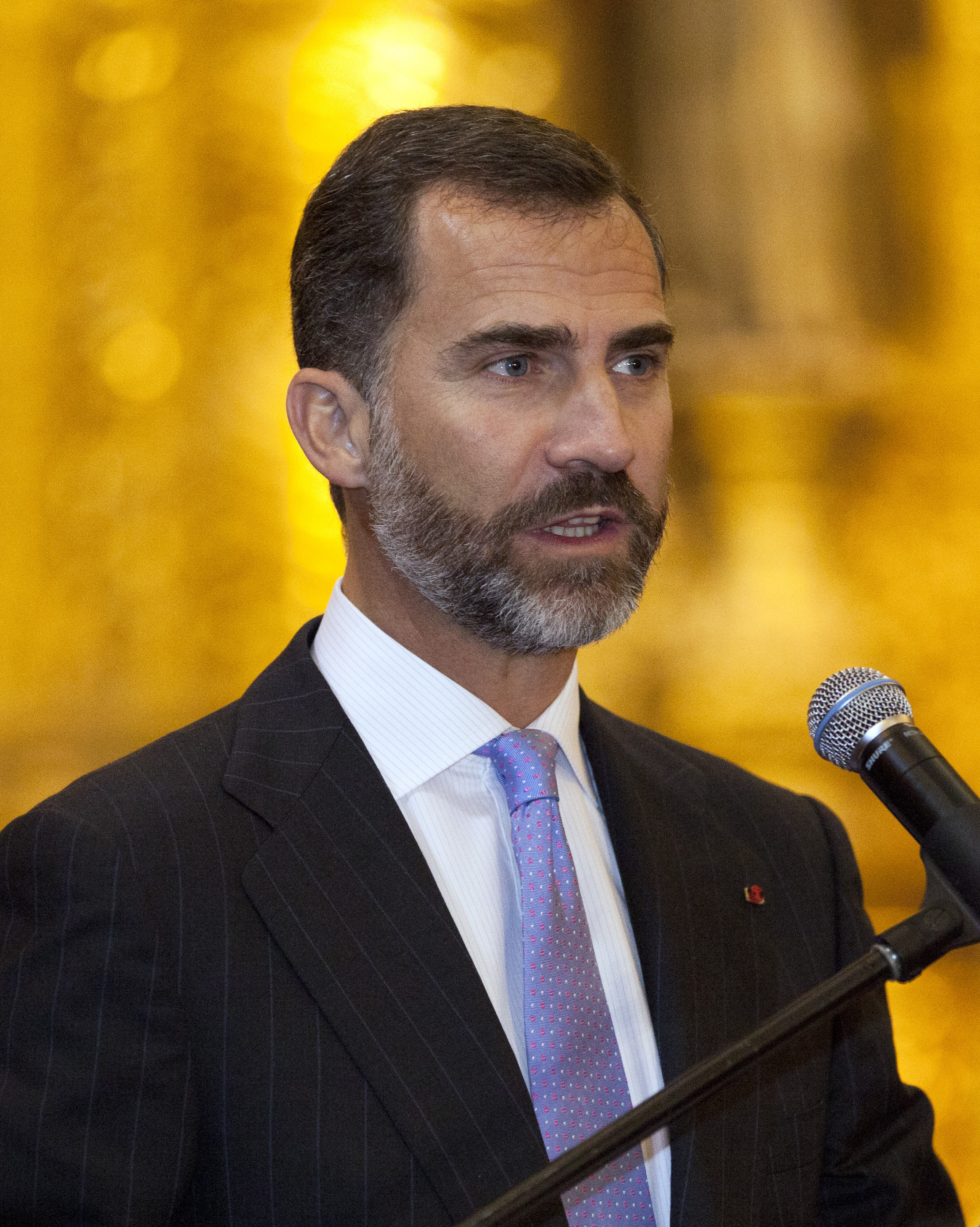 Felipe VI of Spain, as Prince of Asturias, during an official visit to Ecuador.